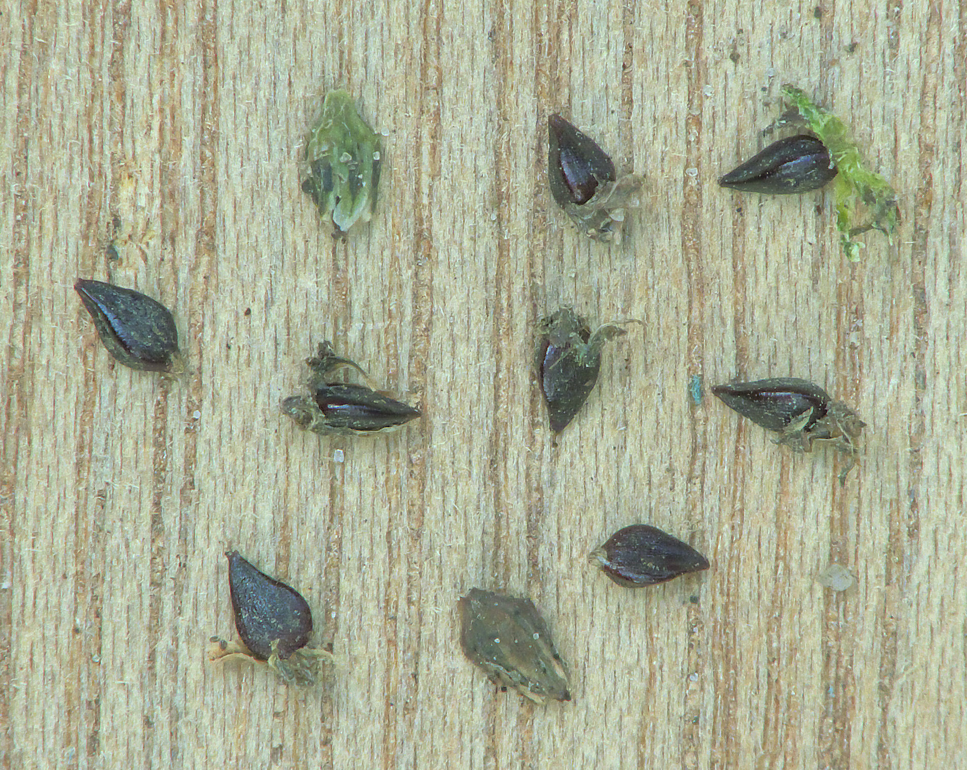 Polygonum aviculare fruits (seeds); 3 x 1.5 mm